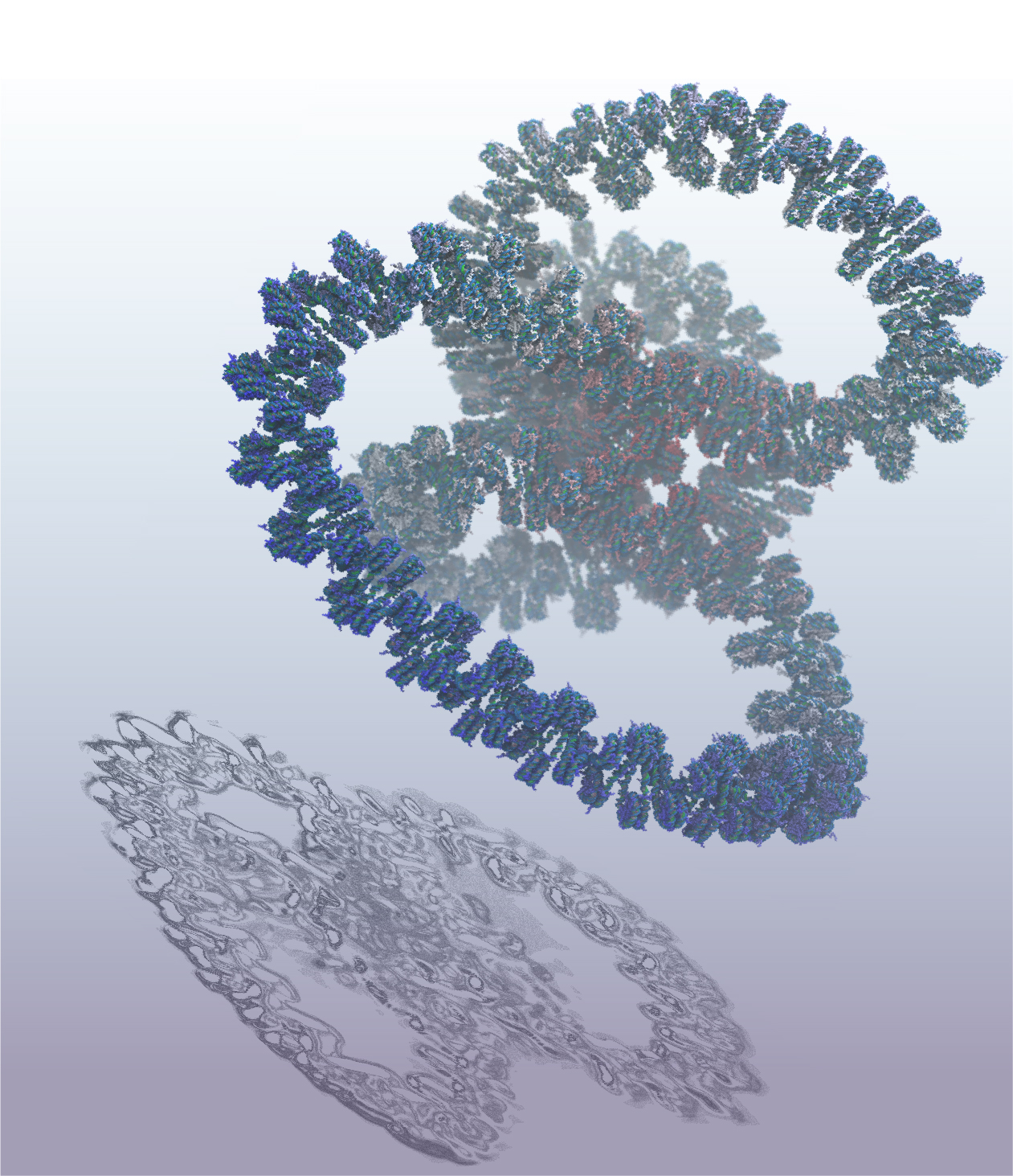 Fully atomistic billion atom simulation of an entire gene